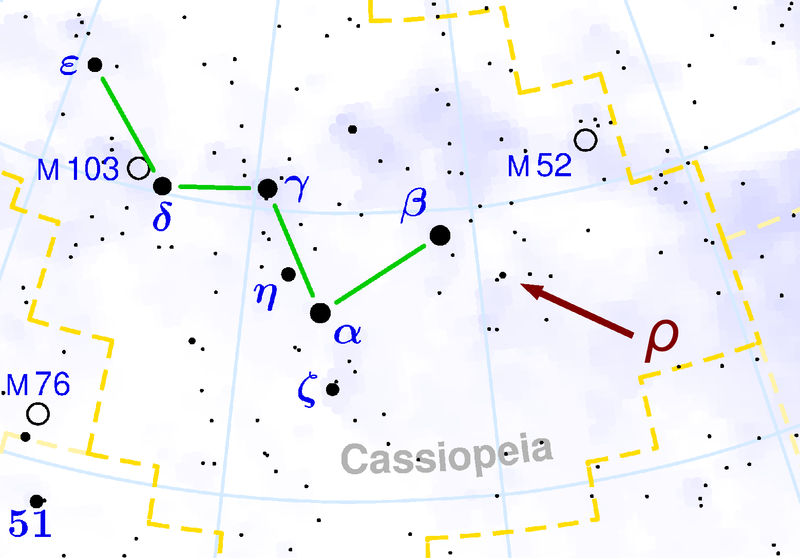 This illustration shows the location of the star Rho Cassiopeiae.